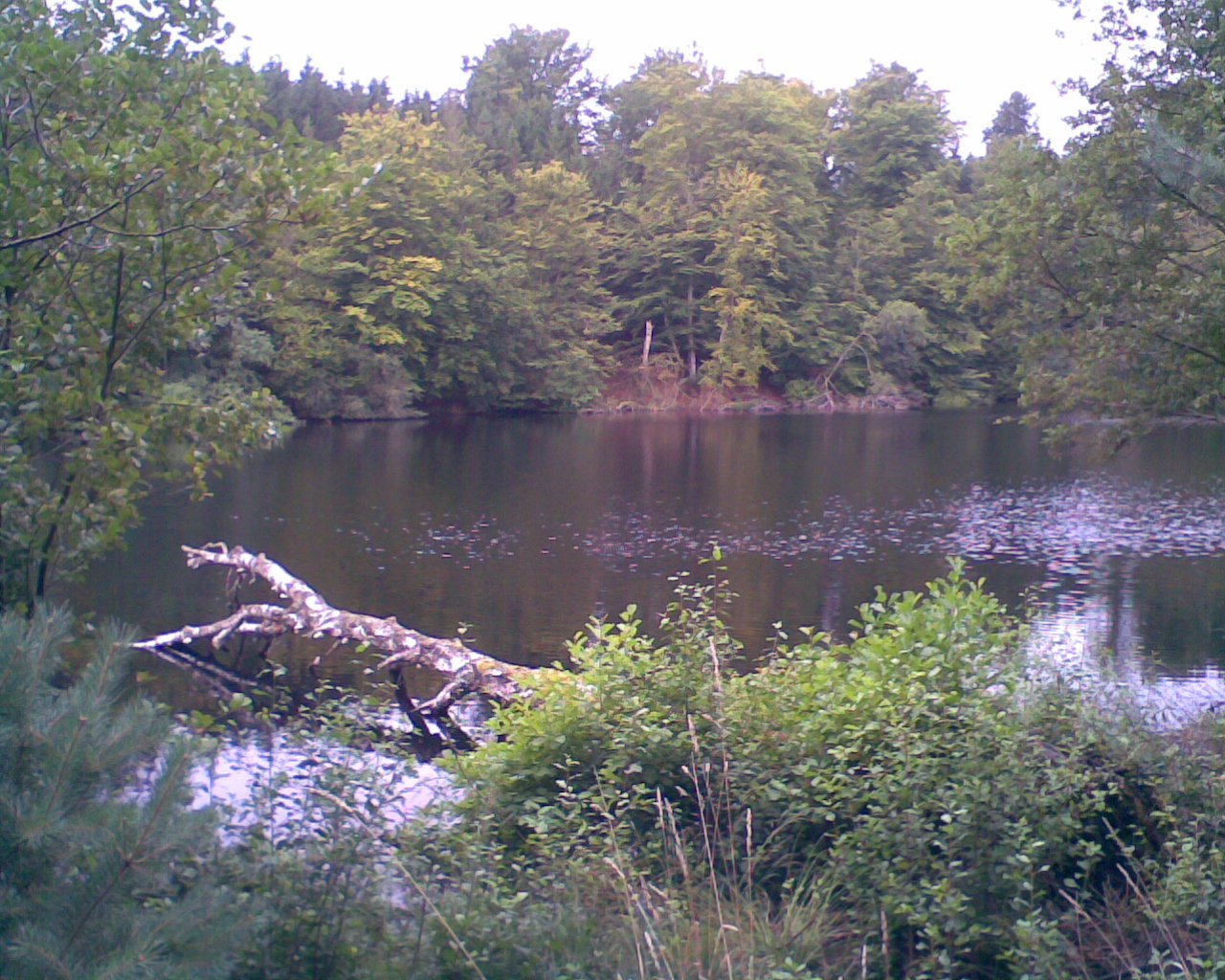 Lake Uglesø near Silkeborg, Denmark